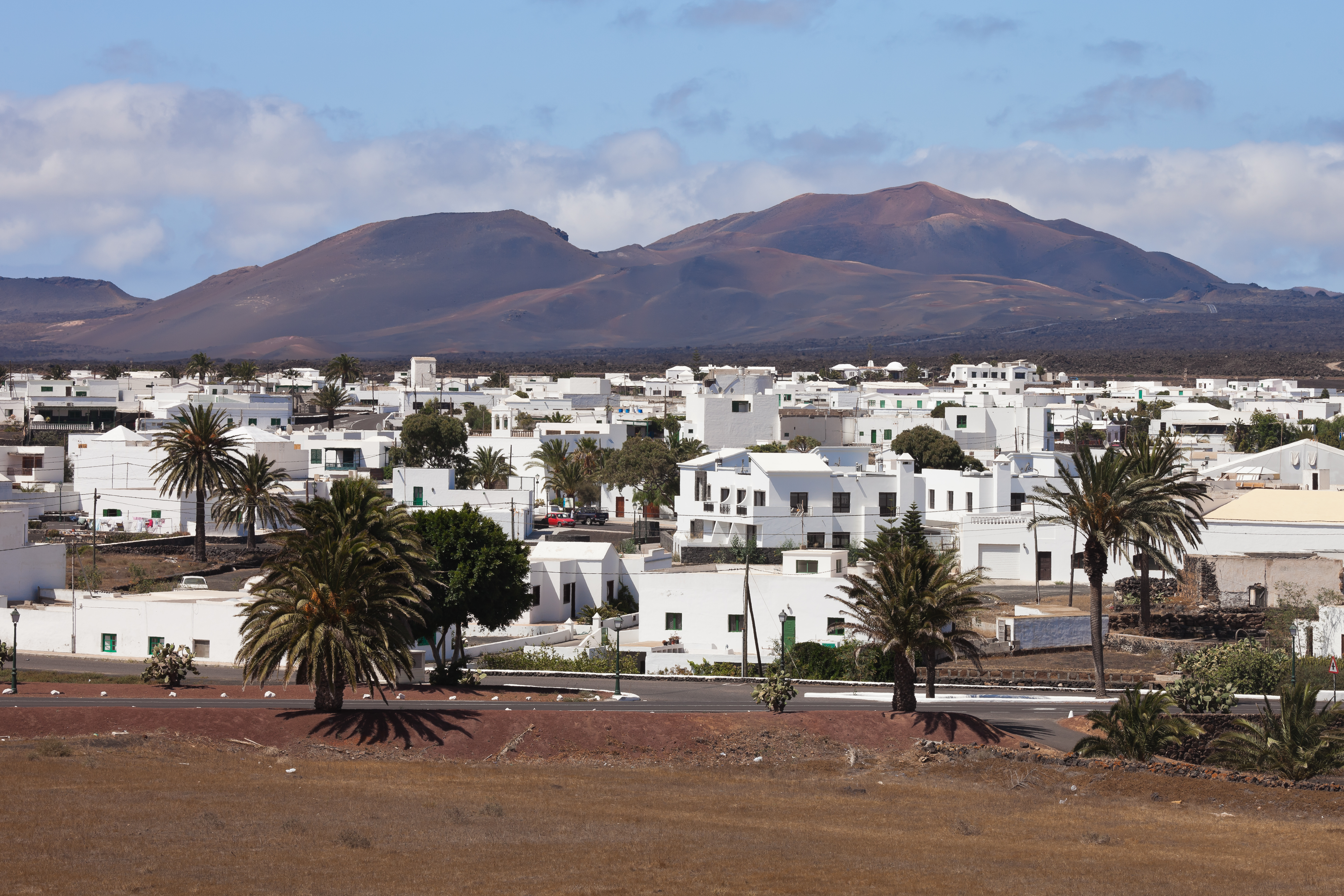 Uga, Yaiza, Lanzarote, Spain